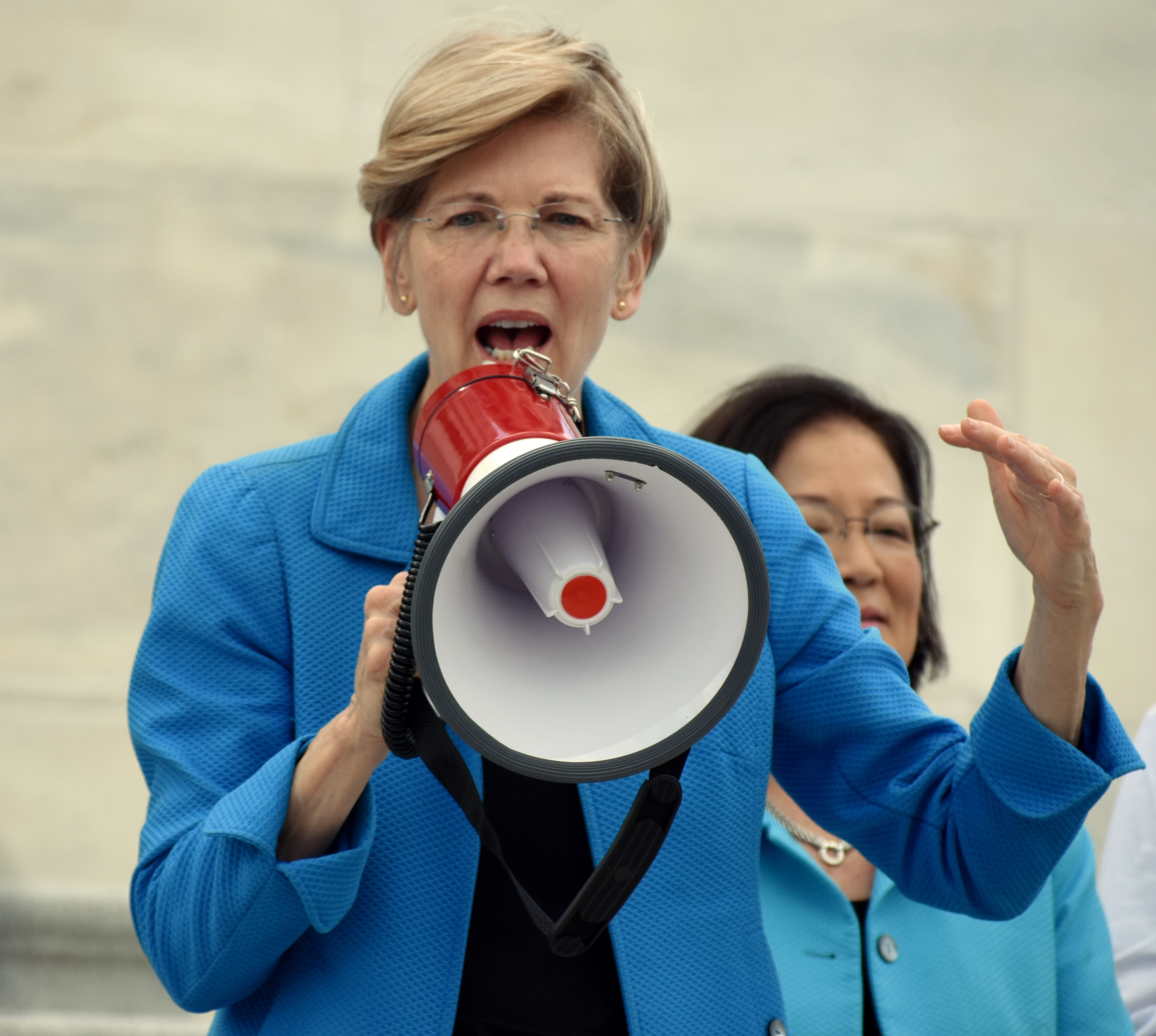 WASHINGTON, DC -- JULY 25 2016: Senators addresses crowds outside the Capitol protesting the GOP health bill.